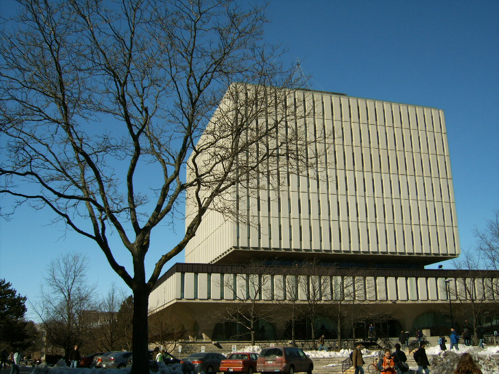 Dana Porter Library at the University of Waterloo, in Waterloo, Ontario, Canada